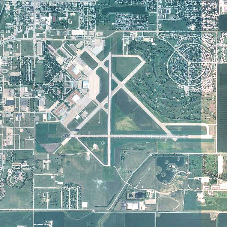 Chanute Air Force Base, Illinois (Closed)